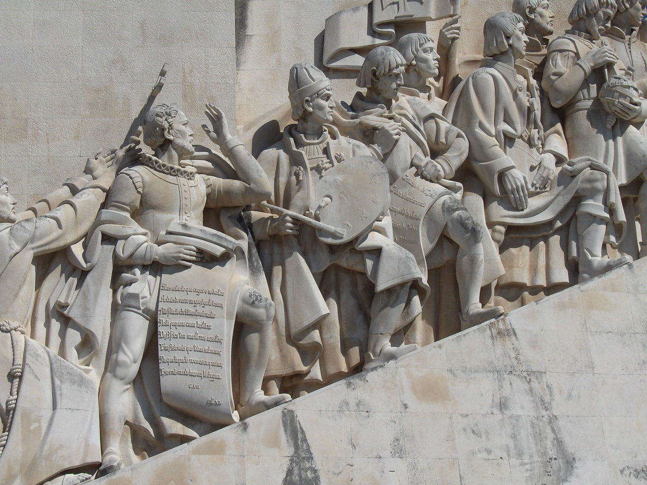 Western side of the Monument to the Discoveries in Belém, Portugal; depicted : the poet Luís de Camoês (with a roll from his Os Luciados) and the painter Nuno Gonçalves